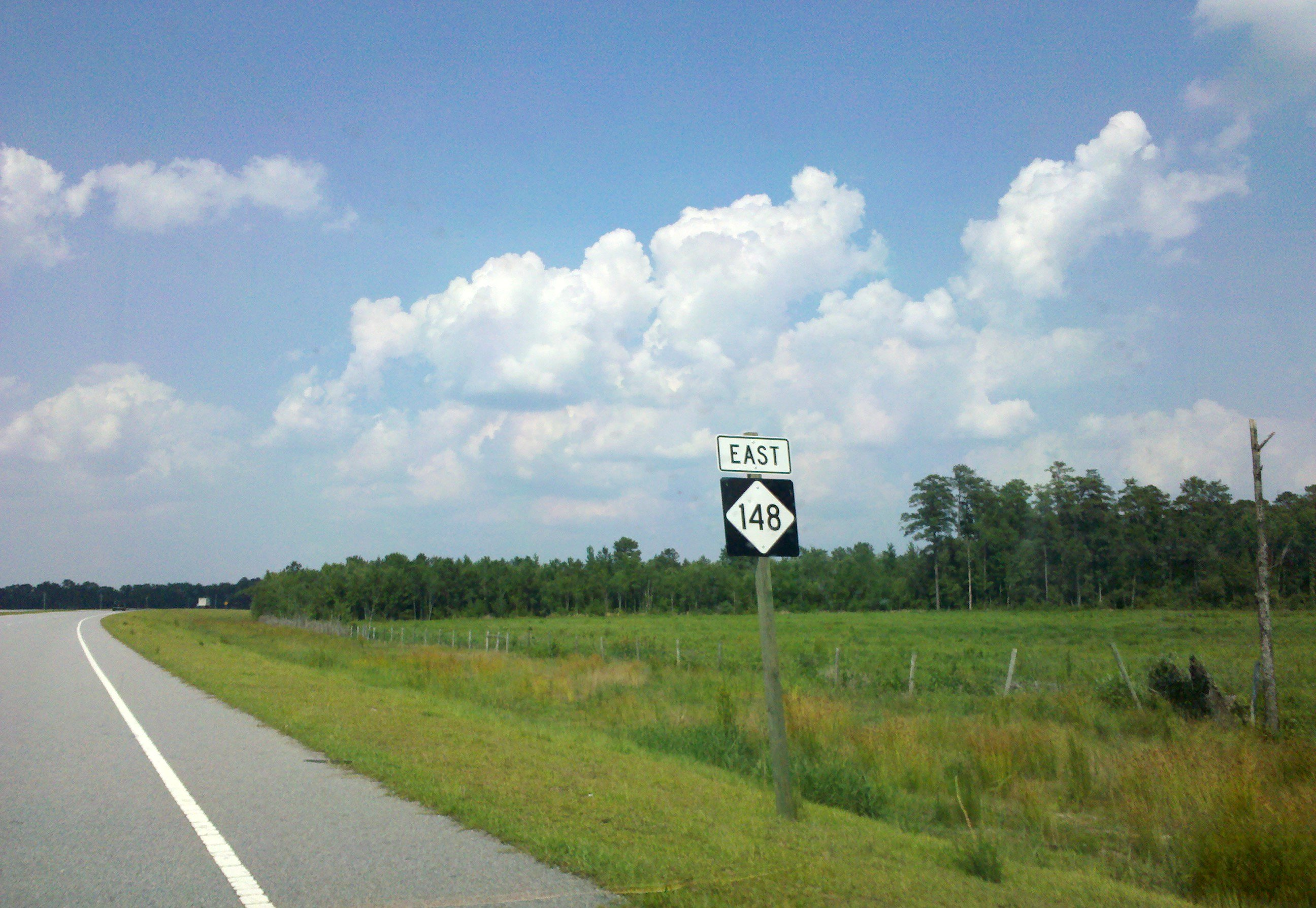 NC Highway 148 Signage